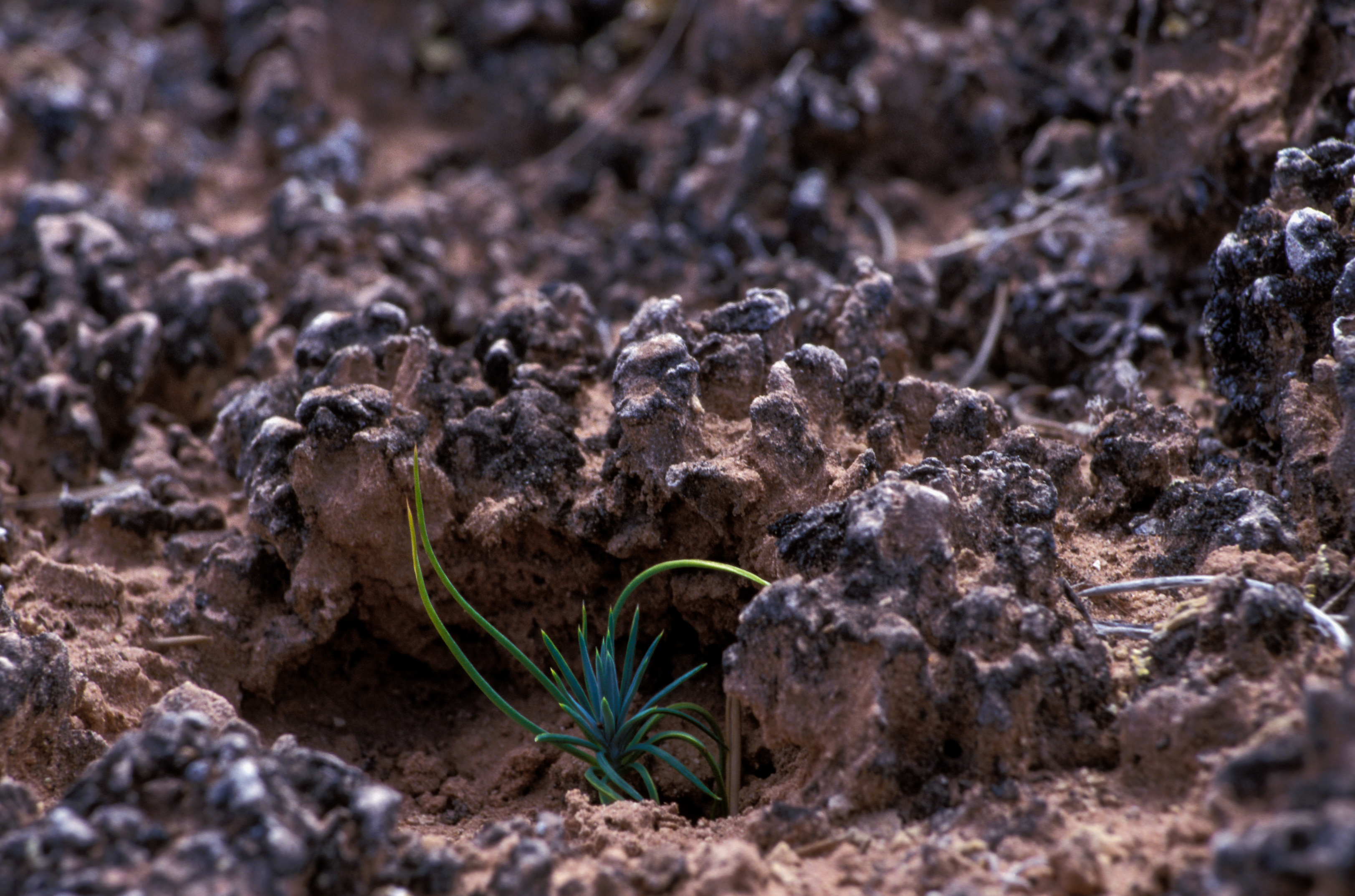 (NPS Photo by Neal Herbert)